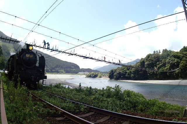 shiogonoturibashi